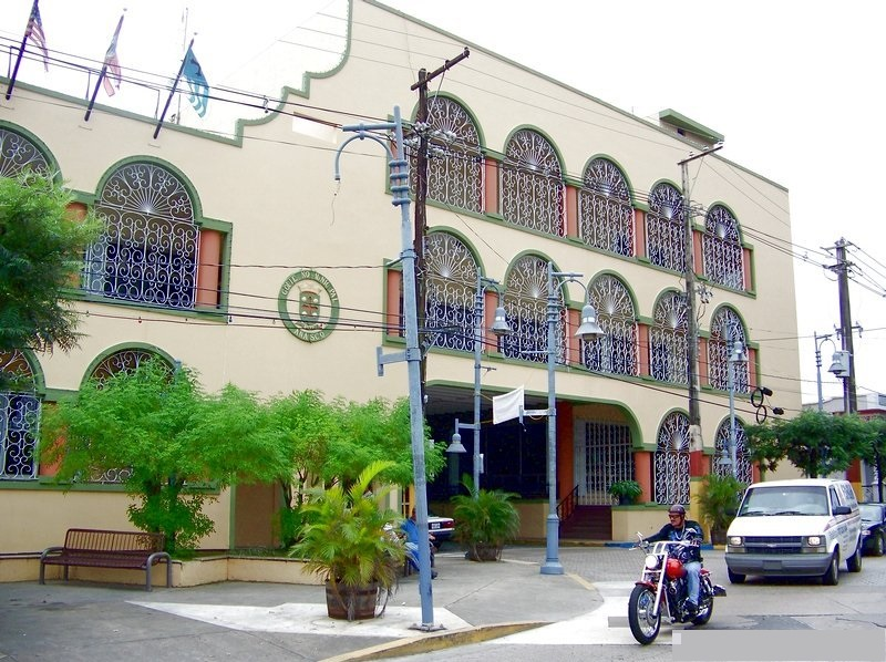 El municipio de Añasco está localizado en Llanos Costaneros del Oeste. Colinda al norte con Mayagüez. Rincón, Aguada y Moca, al sur con Mayagüez, al este con San Sebastián y Las Marías y al oeste con el Canal de la Mona.